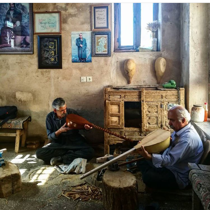 Abcdefg